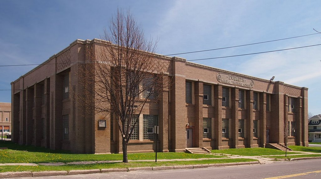 Eveleth Manual Training School, Eveleth, Minnesota, USA. Viewed from the northwest.